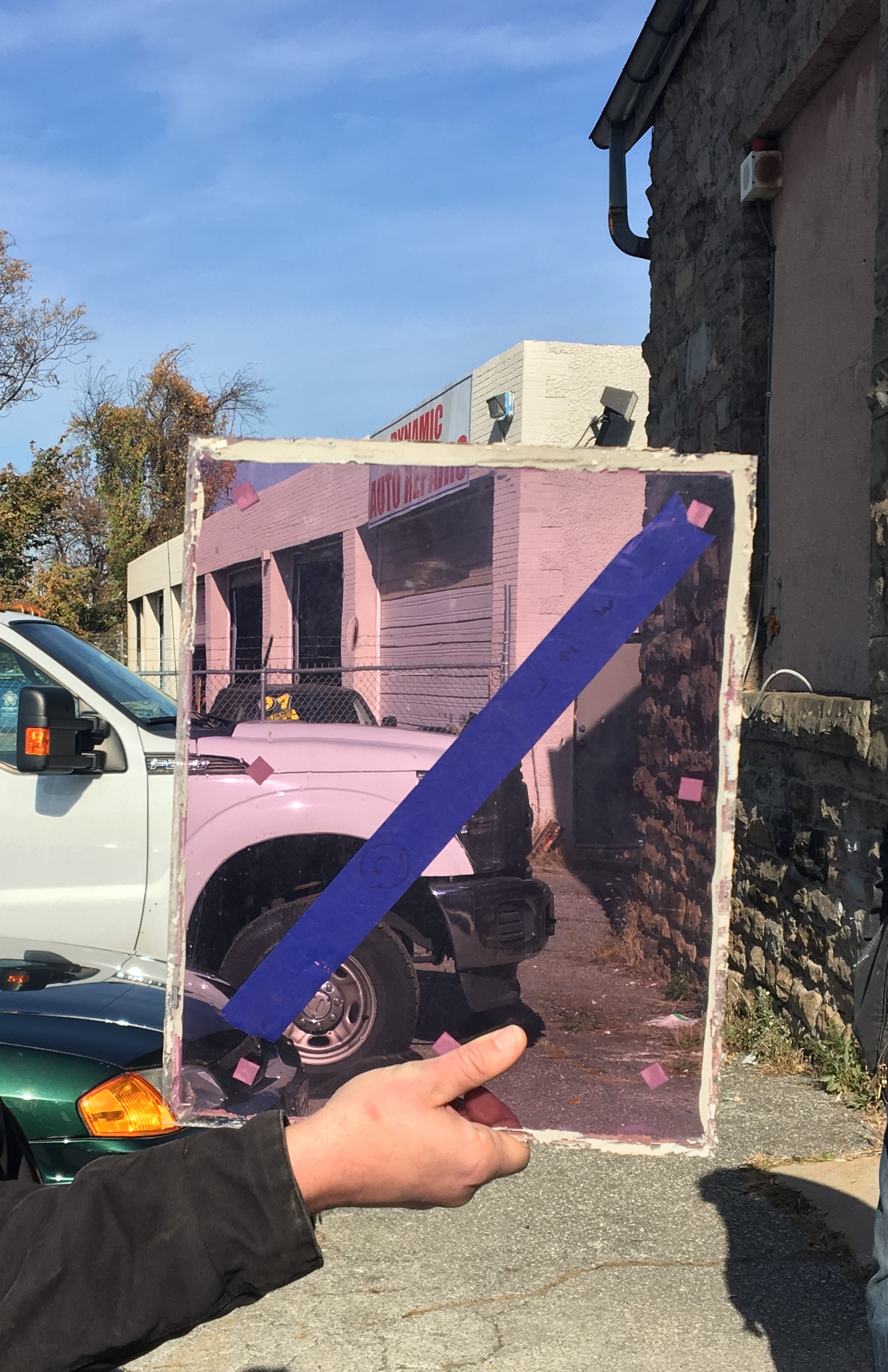 Single pane of historic architectural solarized glass. Taken from a historic window frame in Baltimore, MD